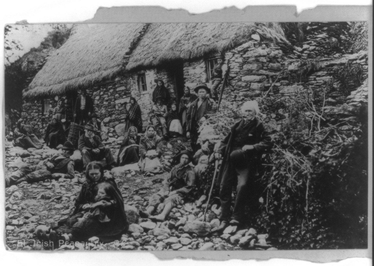 Title: Digital display record: This record exists solely to make the digital image available. You may be able to find information about the displayed item by looking at other online catalog records retrieved with the Reproduction Number below. If no such record is retrieved, information may be found in Prints & Photographs Division manual indexes. Abstract/medium: 1 photograph : print.